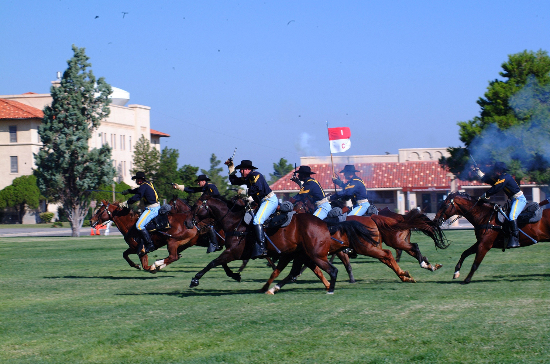 Troopers from the 1st Cavalry Division’s Horse Cavalry Detachment charge across Noel Field during the activation ceremony of the division’s new 4th Brigade Combat Team at Fort Bliss, Texas Tuesday.